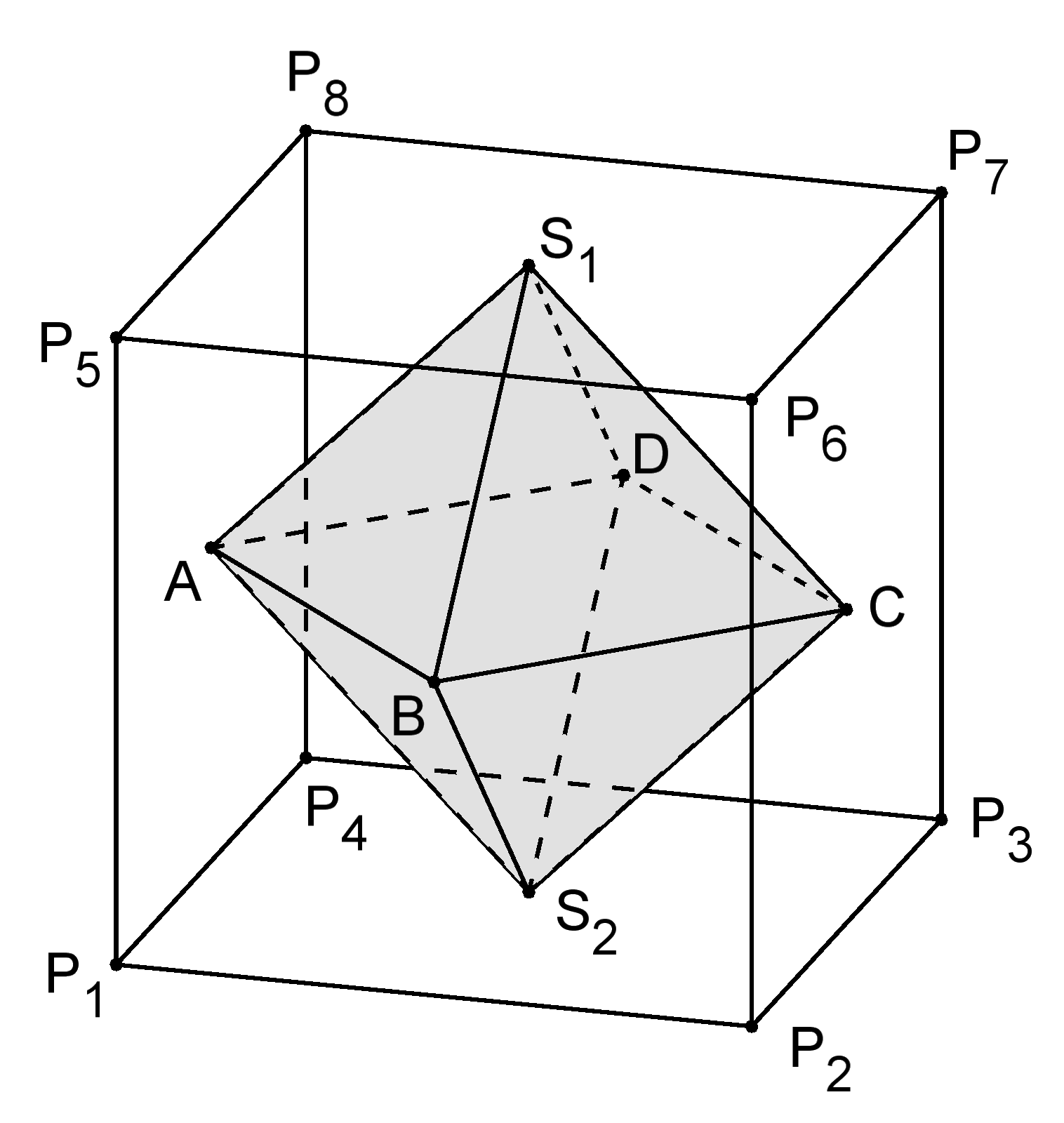 octahedron